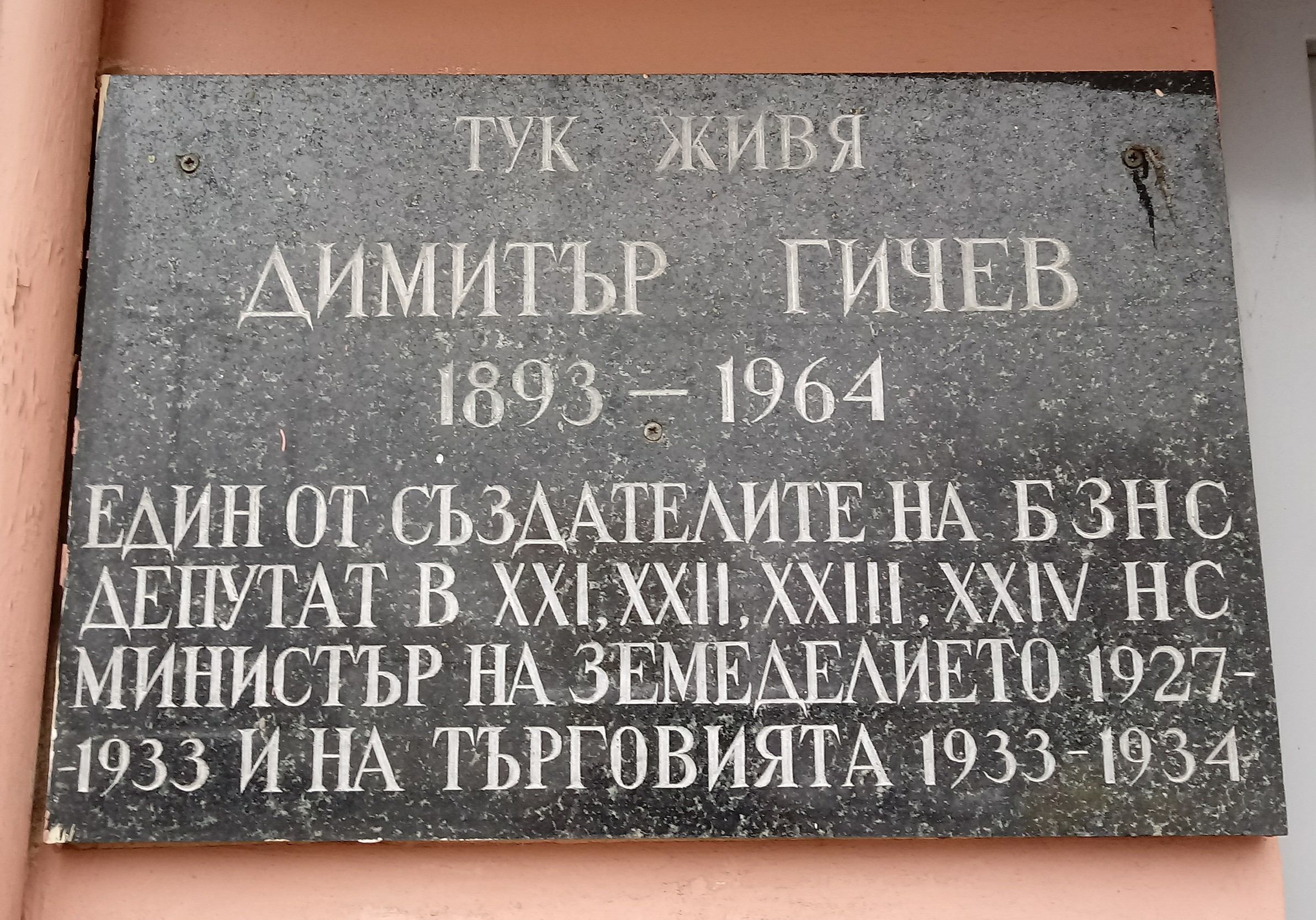 Dimitar Gichev memorial plaque, 1A Tsarigradsko Chaussee Blvd., Sofia